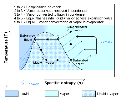 Image:RefrigerationTS.jpg with JPEG artifacts removed by a four-line Python program. Hooray, python-imaging!